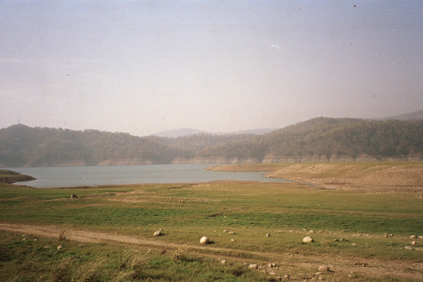 Image shows a view in Jim Corbett National Park, the oldest national park in India.